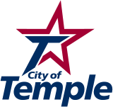 The official city seal of Temple, Texas, created in 2006 by David Blackburn, the Manager of the City of Temple. PNG image of the flag courtesy of Clydette Entzminger, the Secretary of the City of Temple.